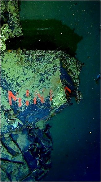 This photograph was taken by an exterior high-definition camera on the DSSV Limiting Factor during its dive on the wreck of the French submarine Minerve (S647). The piece of wreckage is from the sail, clearing showing the letters "MIN" and partial letters "E" and "R" that positively identify the wreck. The dive was completed with French Navy Admiral (retired) Jean-Louis Barbier.